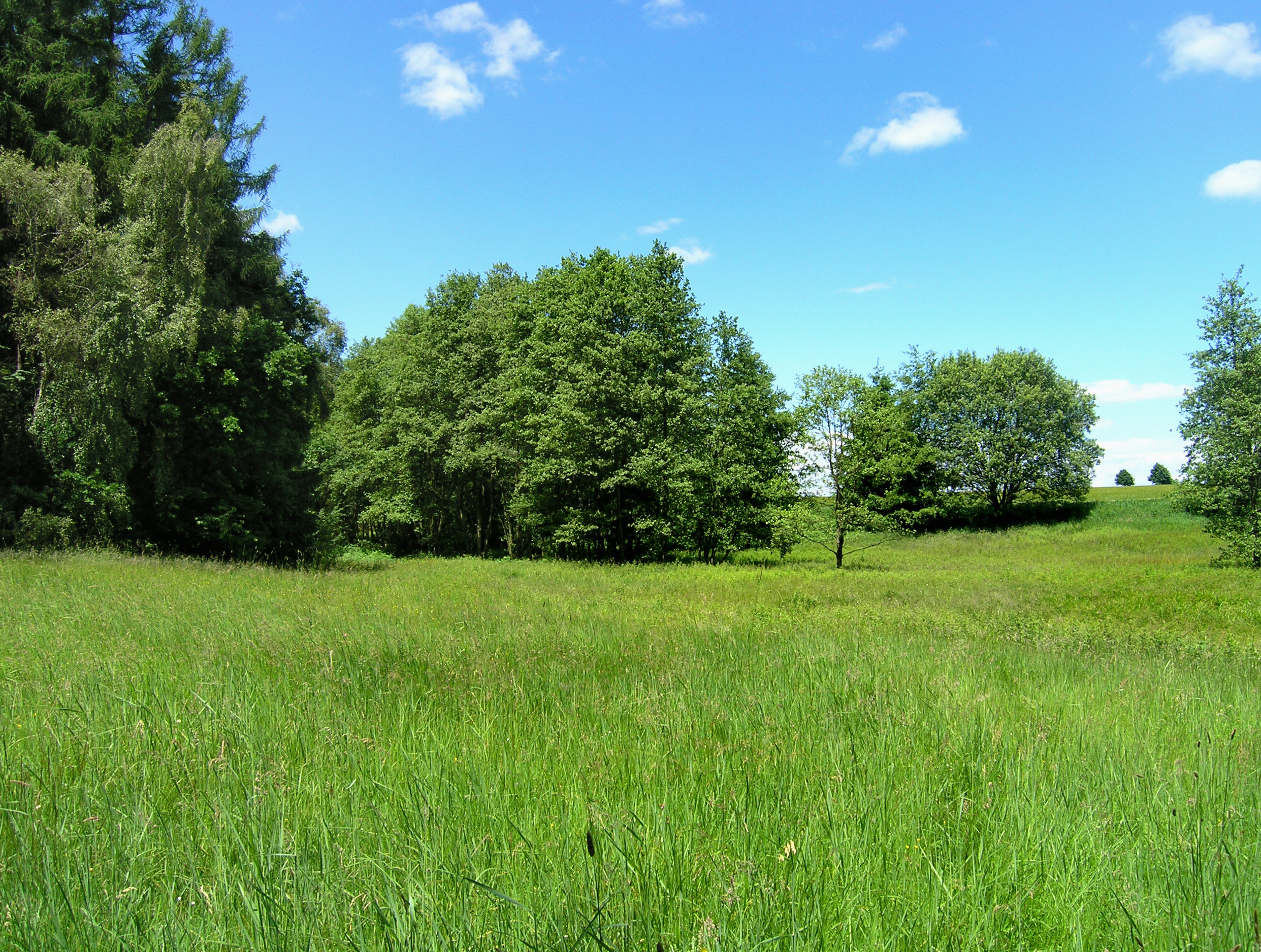 West art of Rybníček u Studeného natural reserve by Studený village, Czech Republic